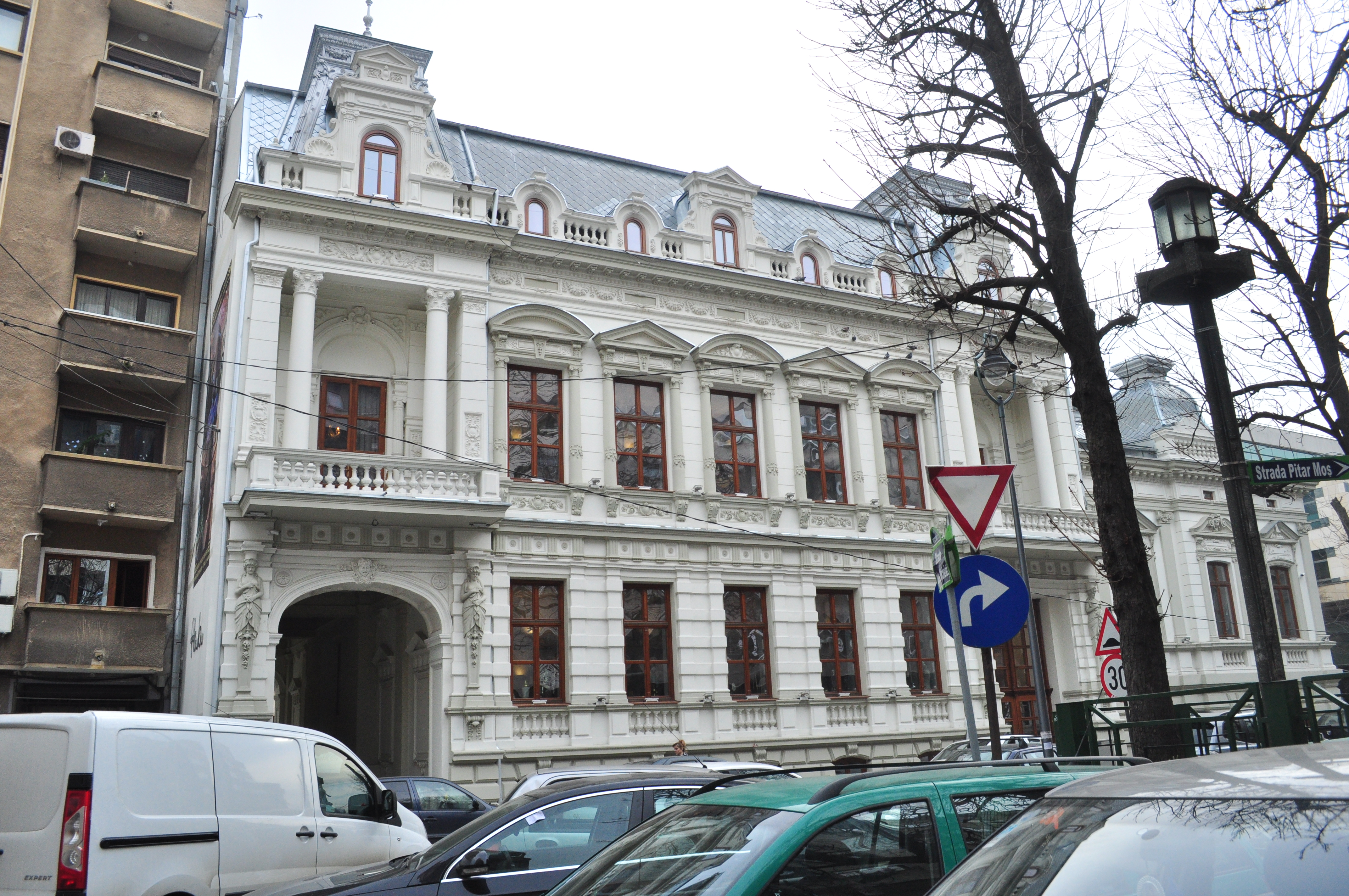 Str. Dionisie Lupu, nr. 70-72, Bucharest, Romania.